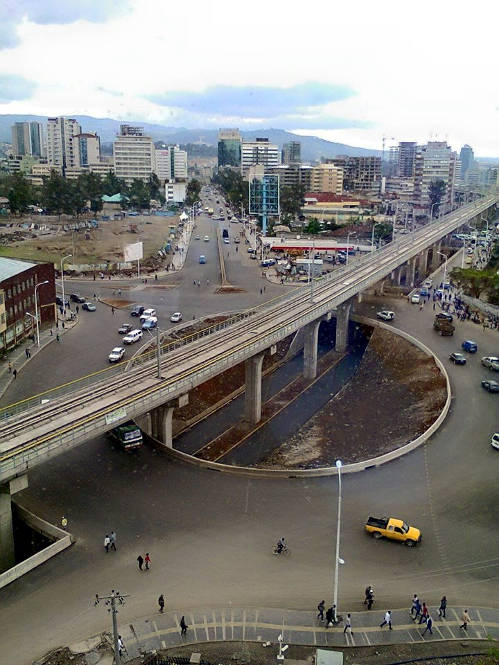 The round about of Mexico Square, in Addis Ababa, crossed by the LRT.